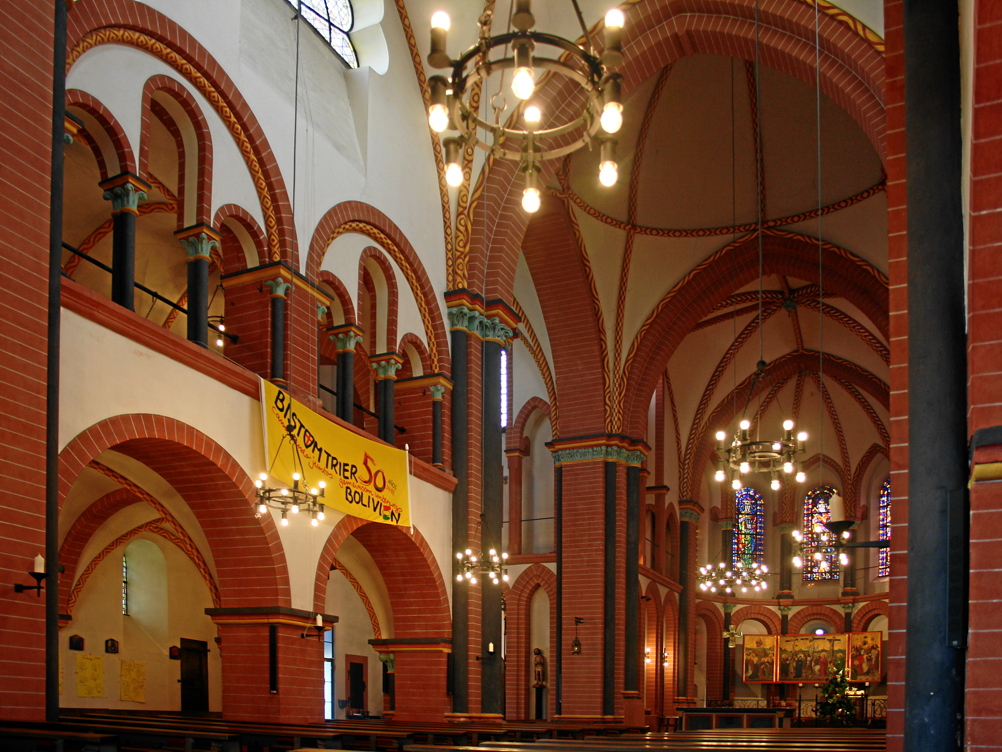 Sinzig, Germany. Roman-catholic church Saint Peter, interior view towards East.